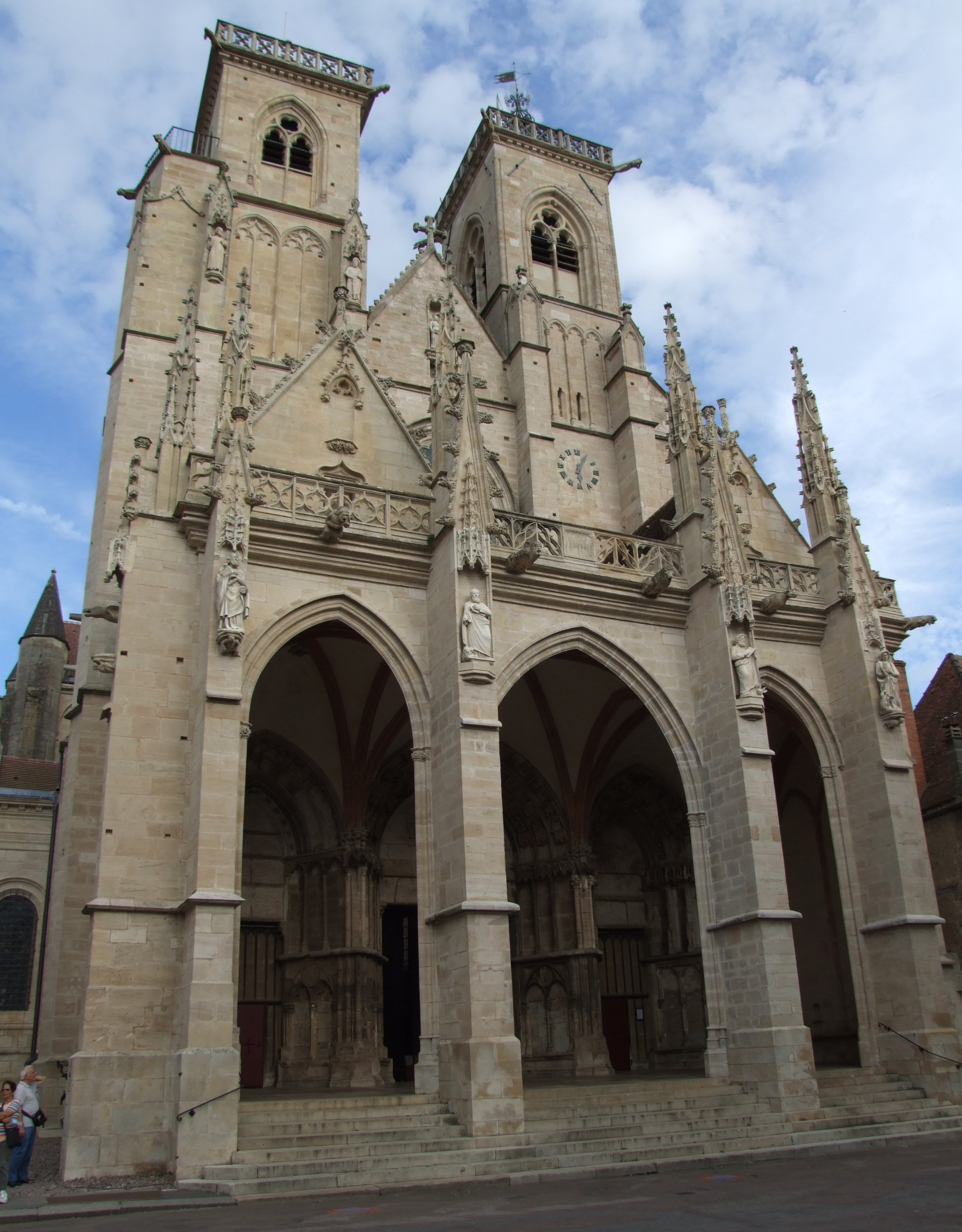 Notre-Dame Church, Semur-en-Auxois, Burgundy, FRANCE